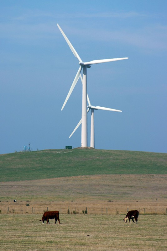 The Great Ocean Road - Wind Farm (Port Fairy - Portland Road)